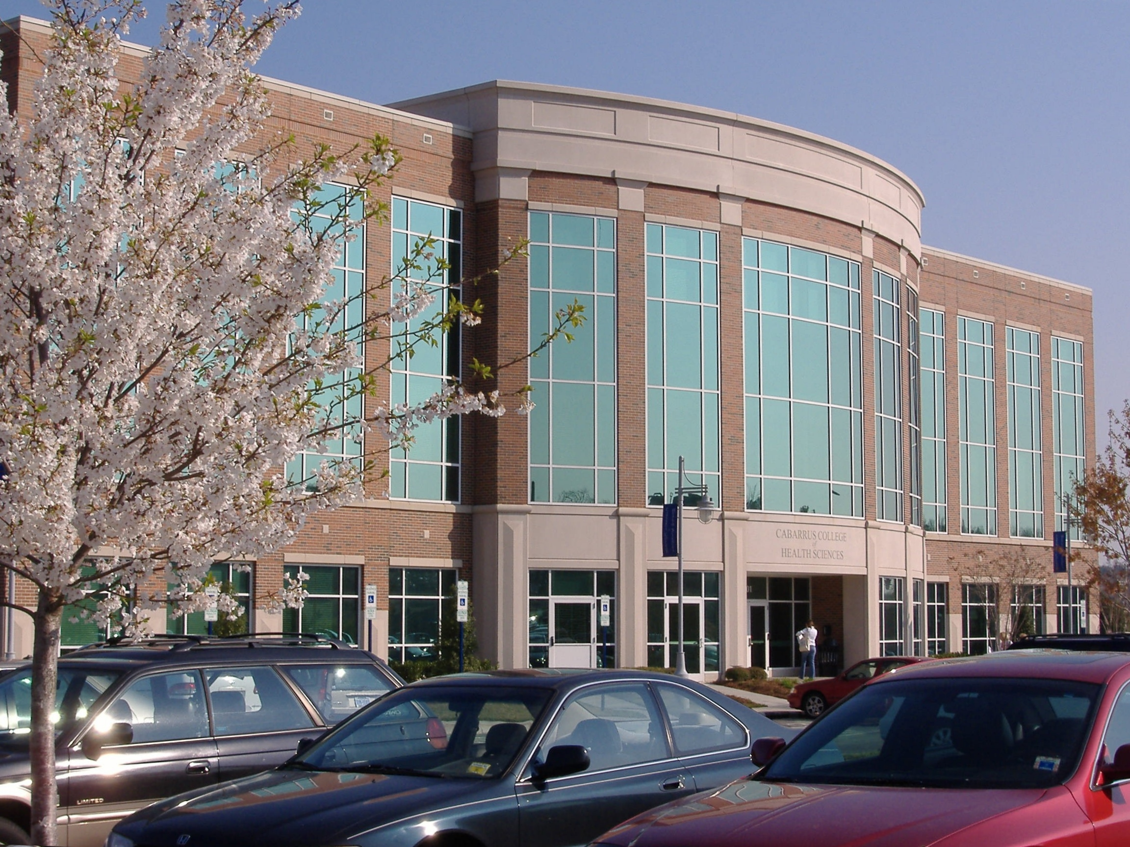 Cabarrus College of Health Sciences, a private, not-for-profit college in Concord, North Carolina